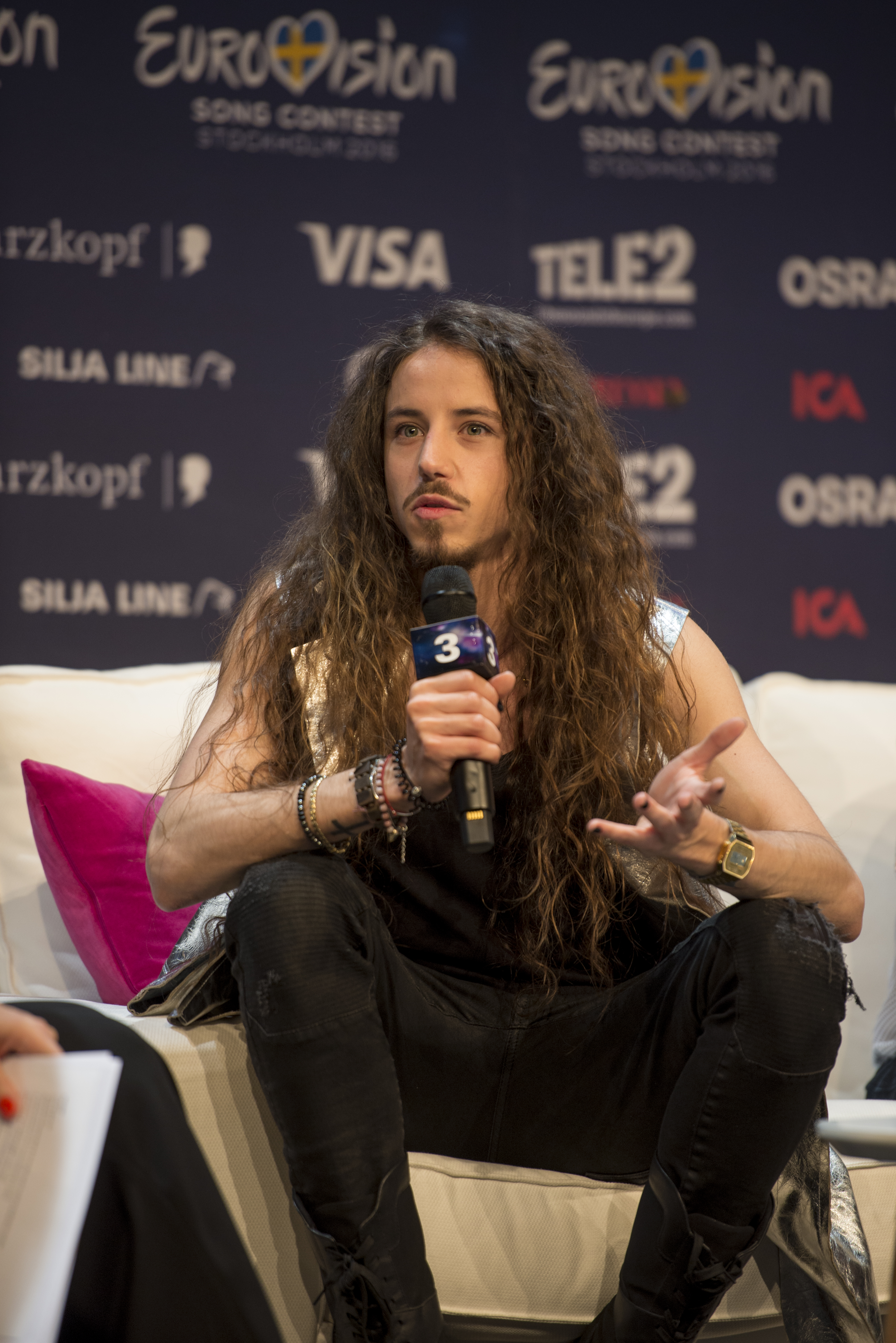 Michał Szpak at a Meet & Greet during the Eurovision Song Contest 2016 in Stockholm. (Help translate this text)